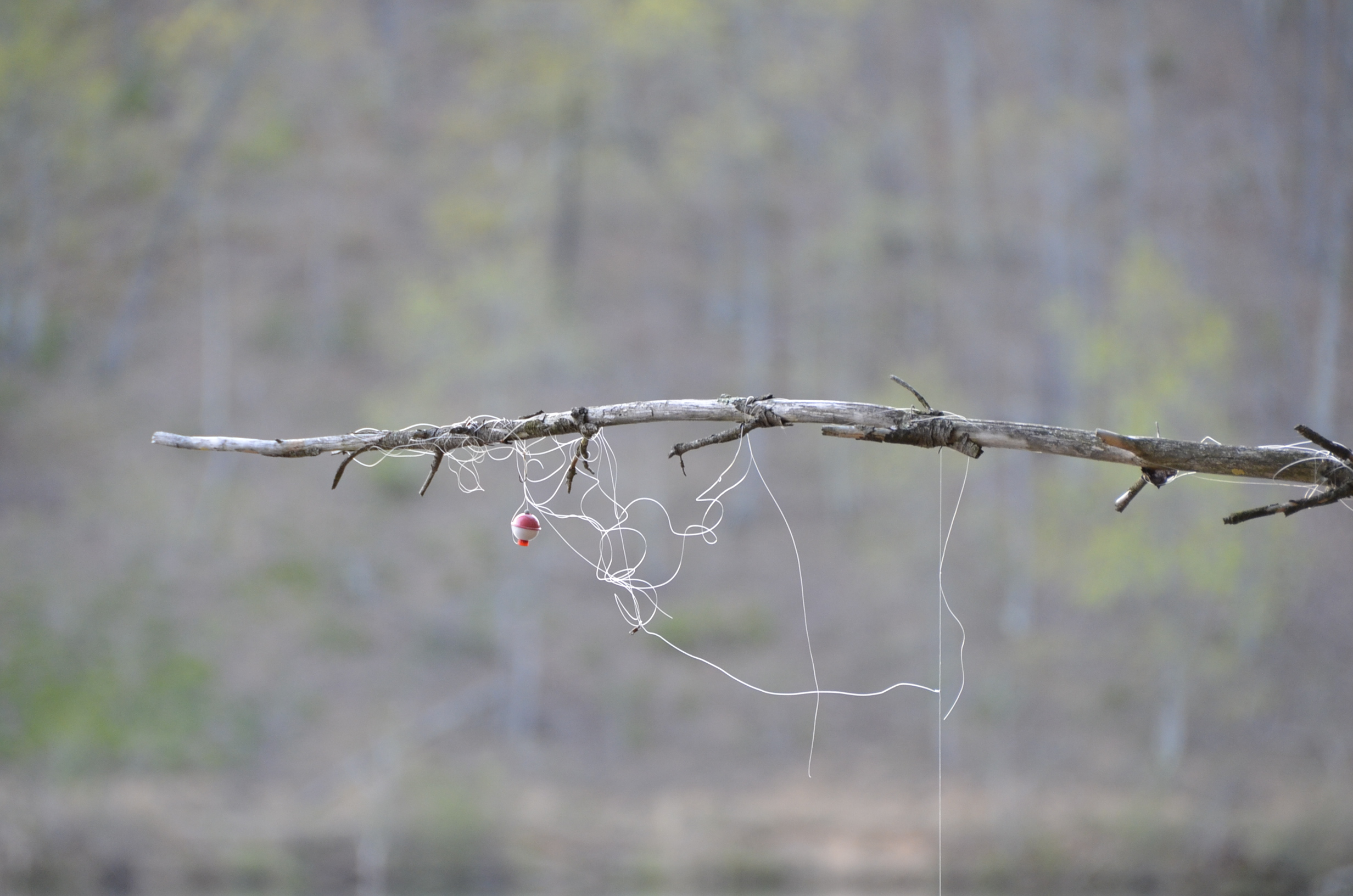 Uploaded by SA